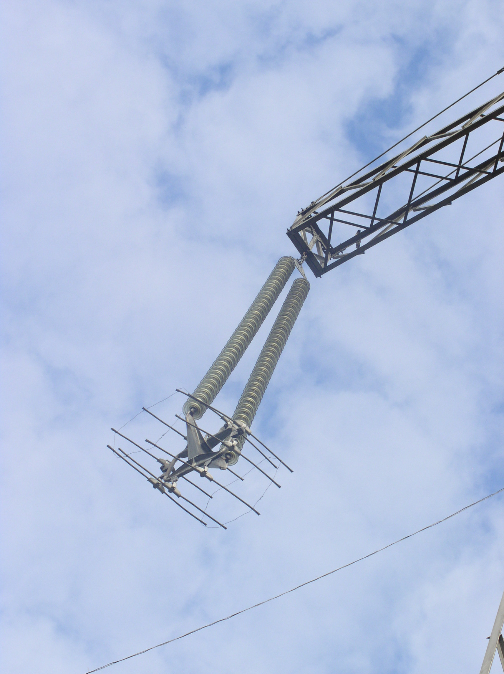 Pylon. All-Russian Exhibition Center. Moscow, Russia.